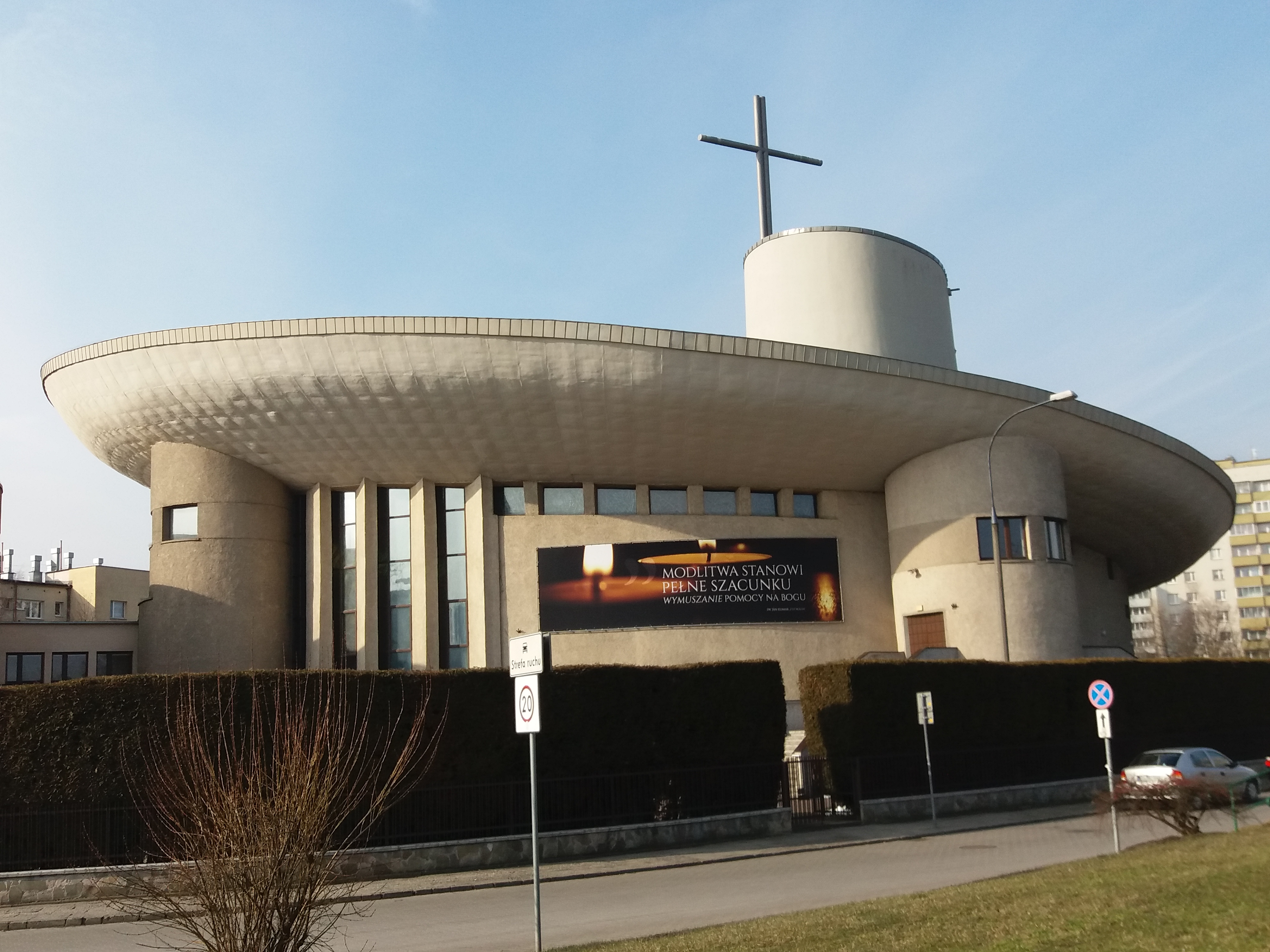 Catholic church of Saint Jan Kanty in Cracow, Poland